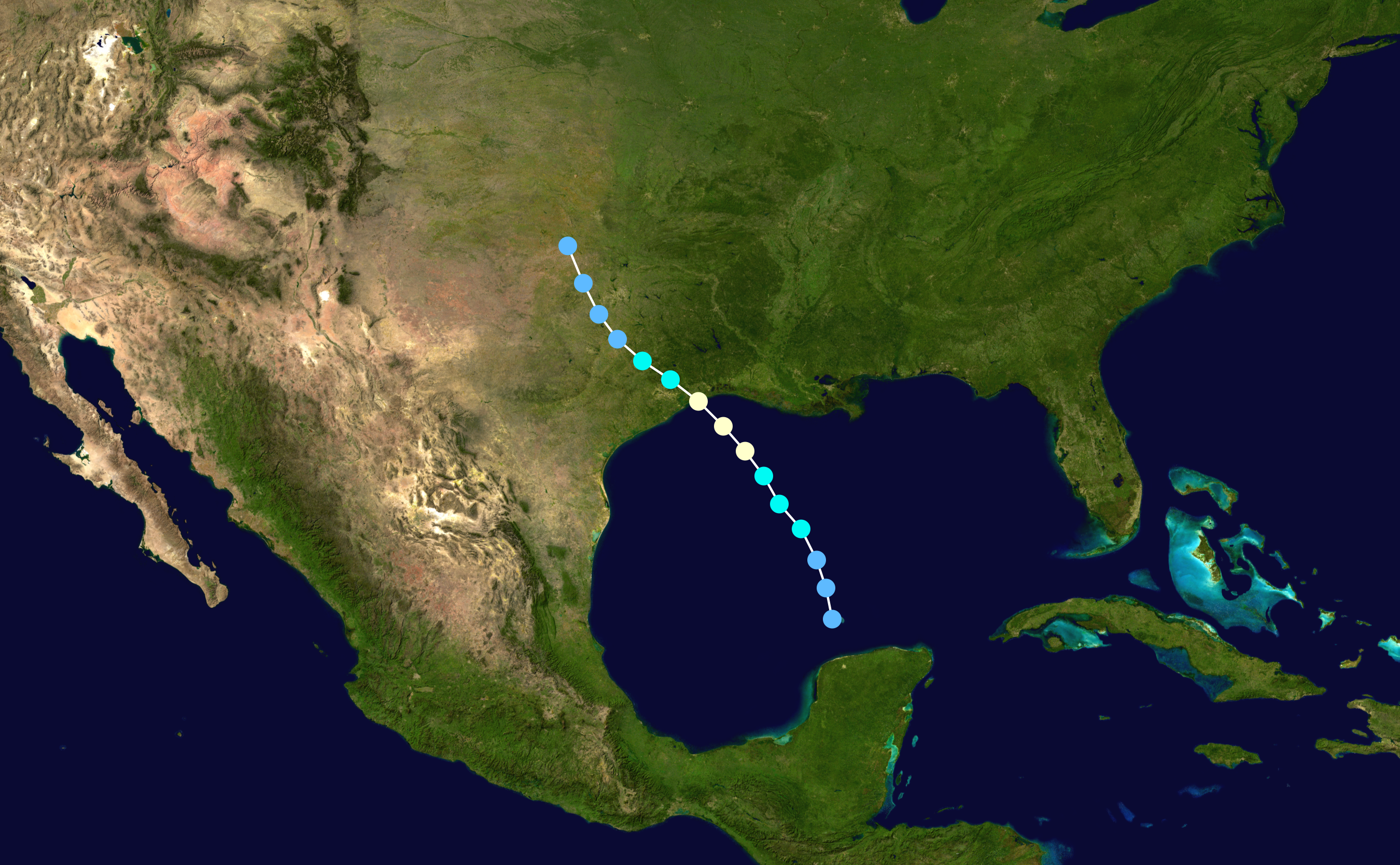 Hurricane Chantal (1989) track. Uses the color scheme from the Saffir-Simpson Hurricane Scale.